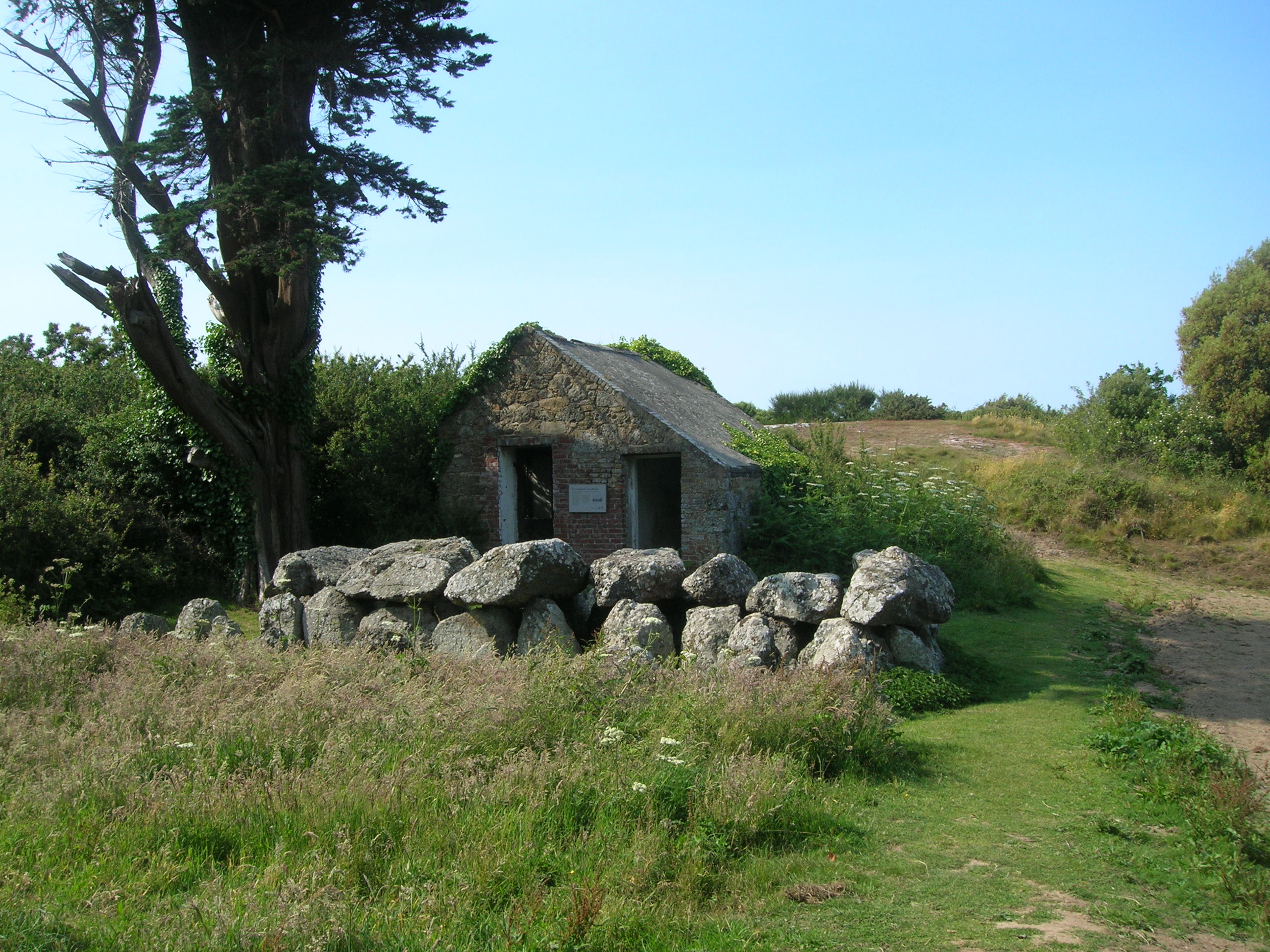 Photo of Le Couperon guardhouse and the adjacent Neolithic dolmen